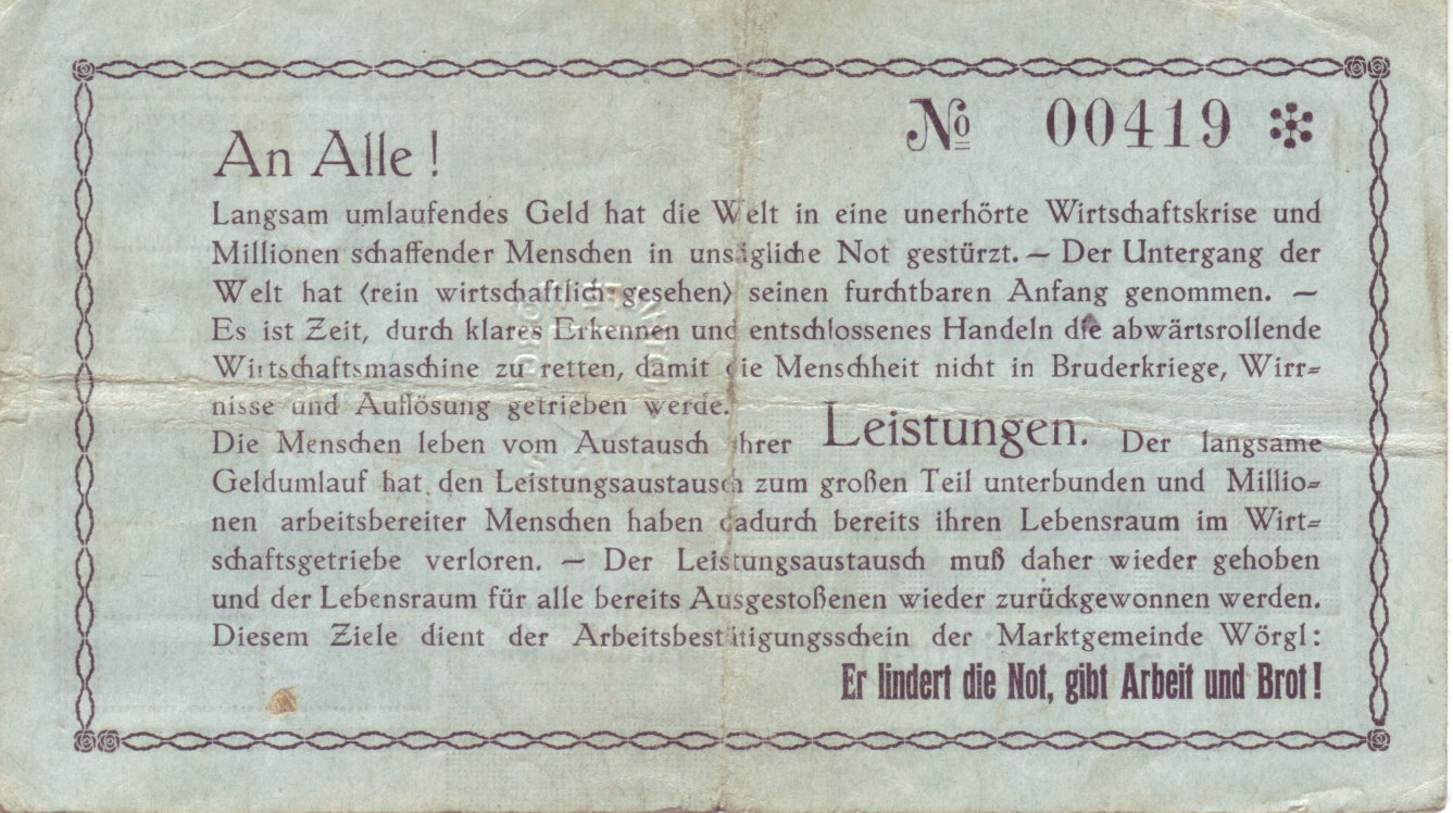 The unitary front side of a bank note of the "Wörgler Schwundgeld"